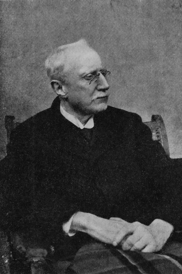 Antonín Sova (1864–1928) Czech poet, forester's lodge in Štít near Chlumec nad Cidlinou, summer 1922